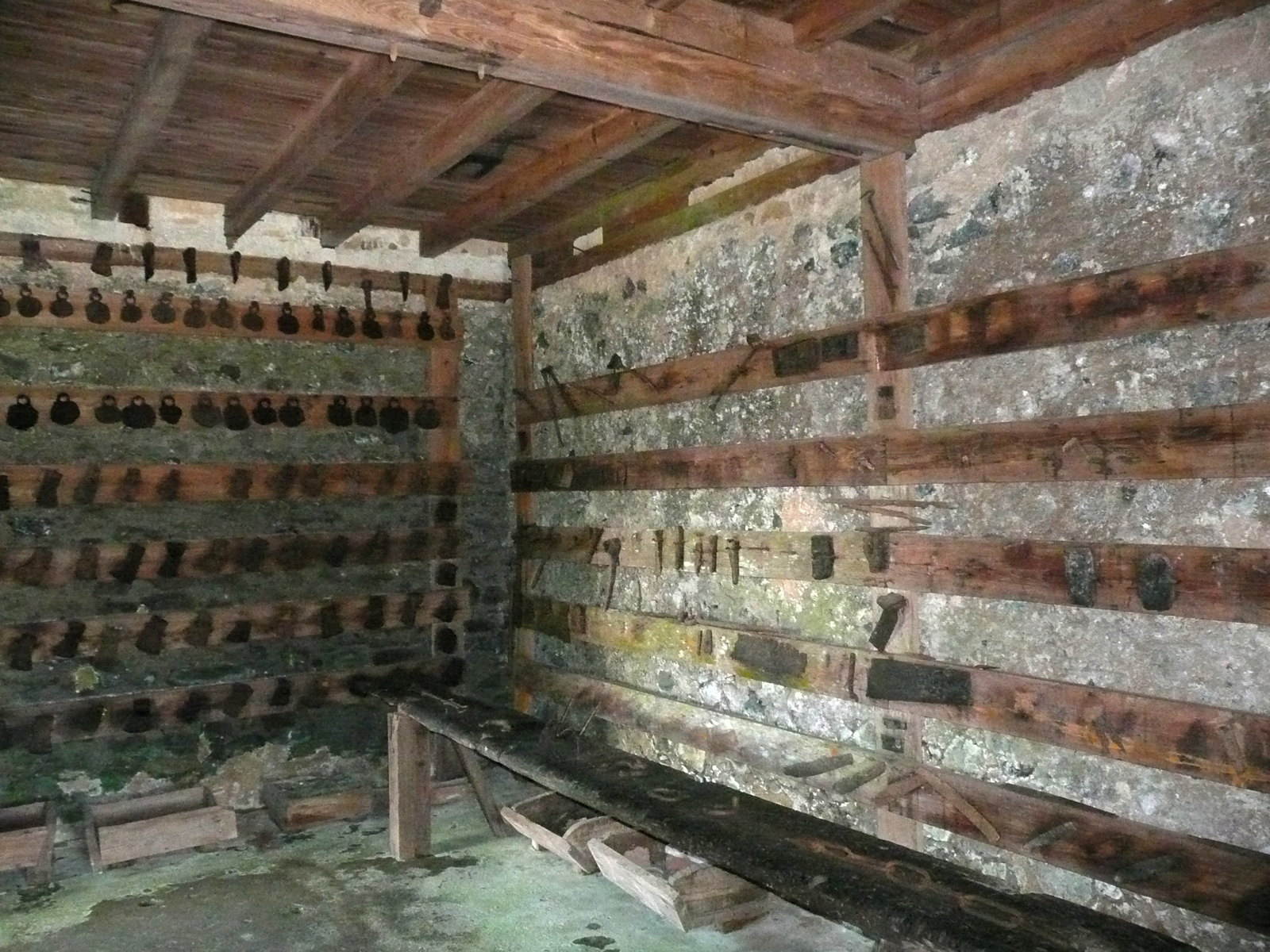 Cuba, historic coffee plantation cafetal Isabelica. Collection of tools and slave chains